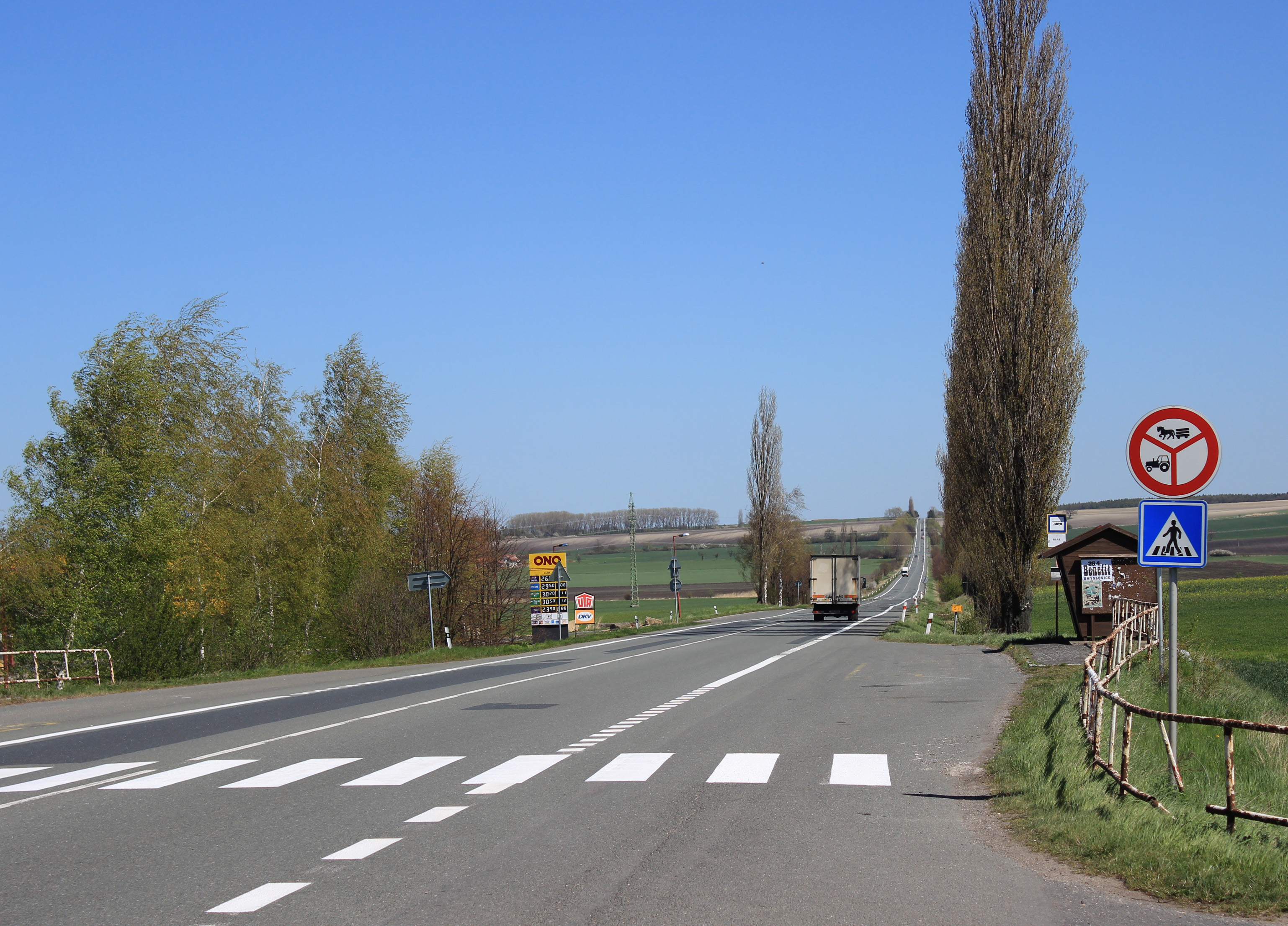 Road No. 11 by Kolaje, Czech Republic.